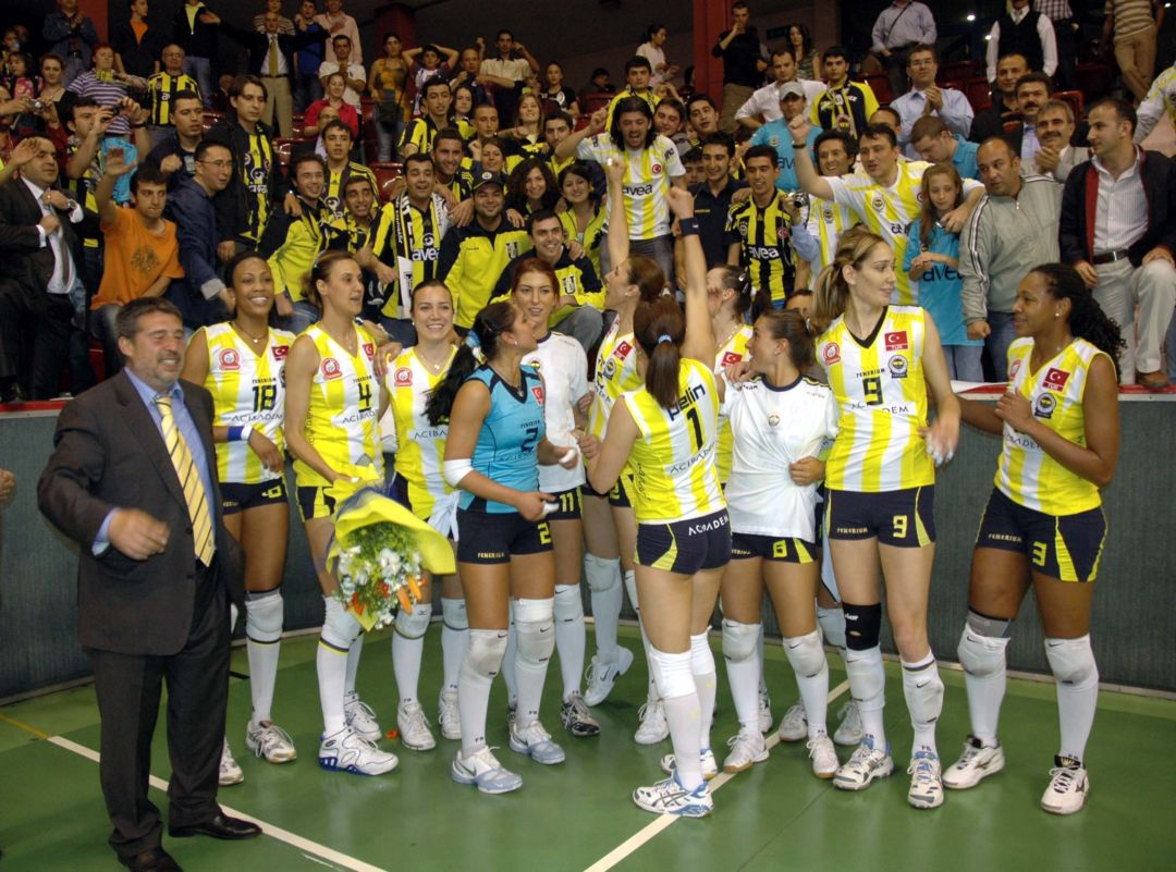 #2 Valeriya Korotenko with her team from Istanbul